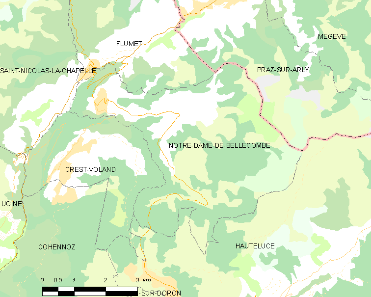 Map of French municipality